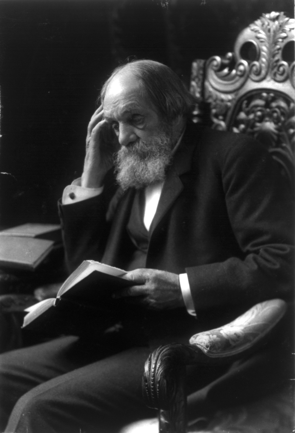 Edward Everett Hale, 3/4 length, seated, reading book, facing left.